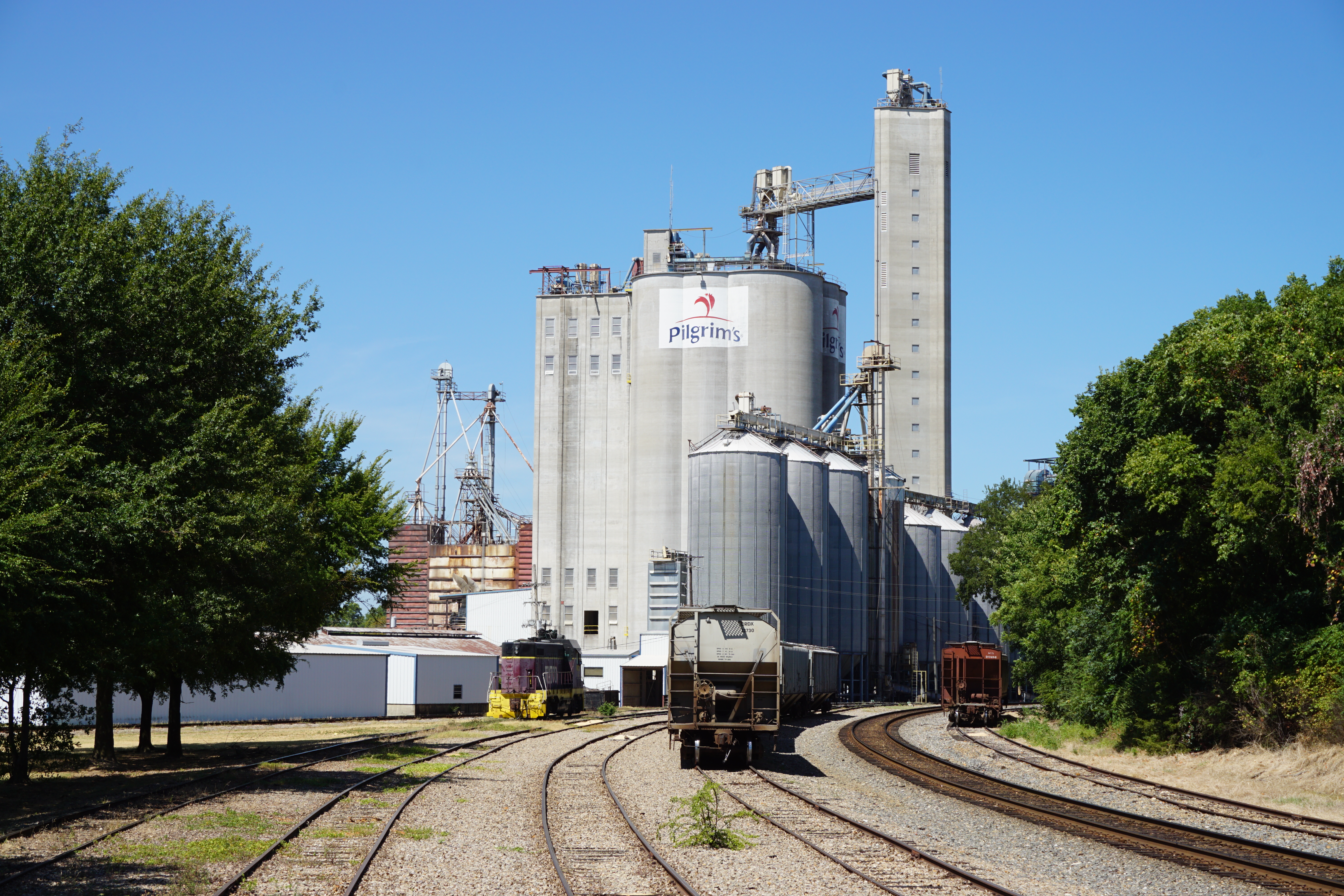 The Pilgrim's Pride feed mill in Pittsburg, Texas (United States).